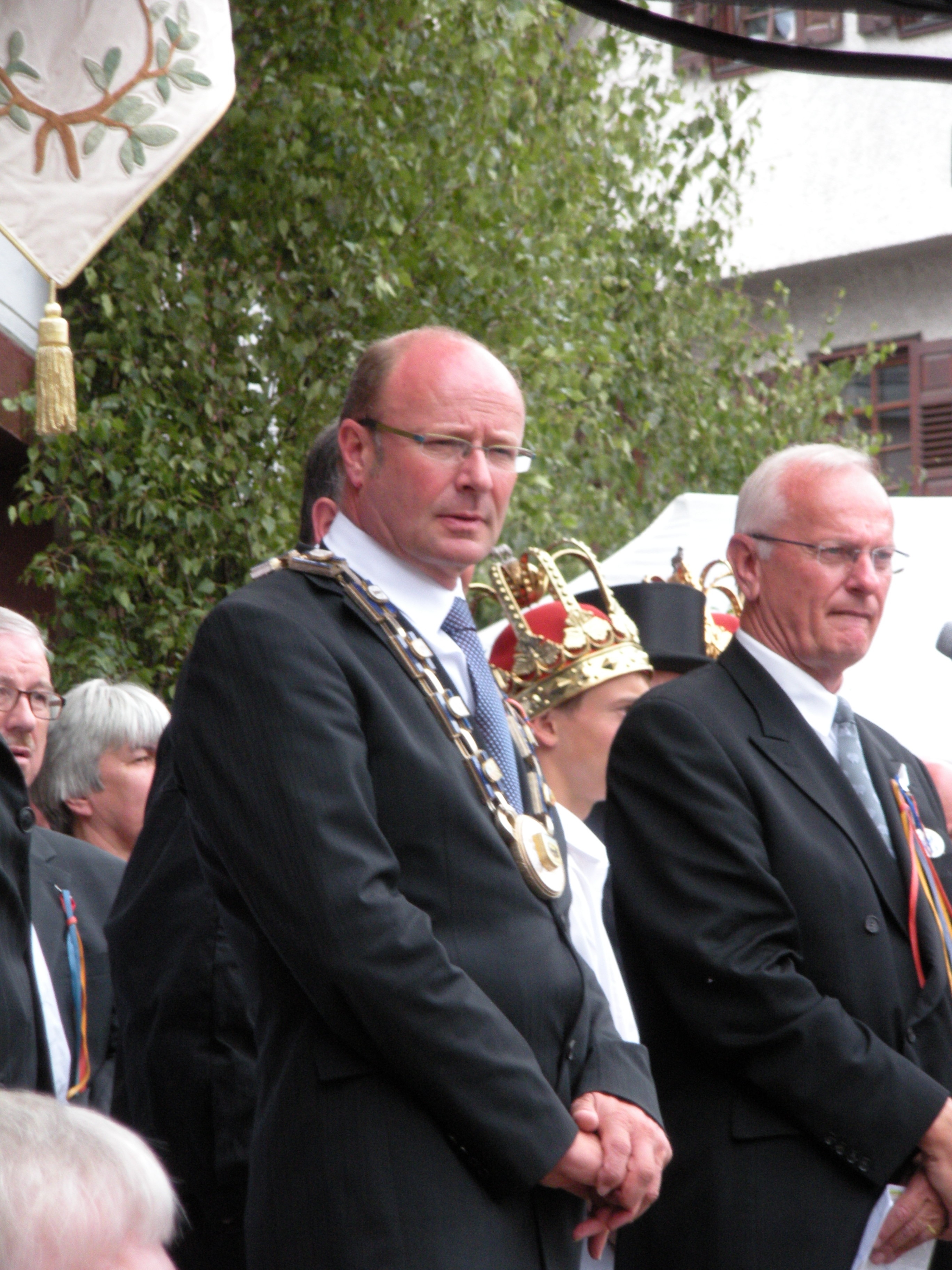 Mayo Rudolf Kürner, Markgröningen